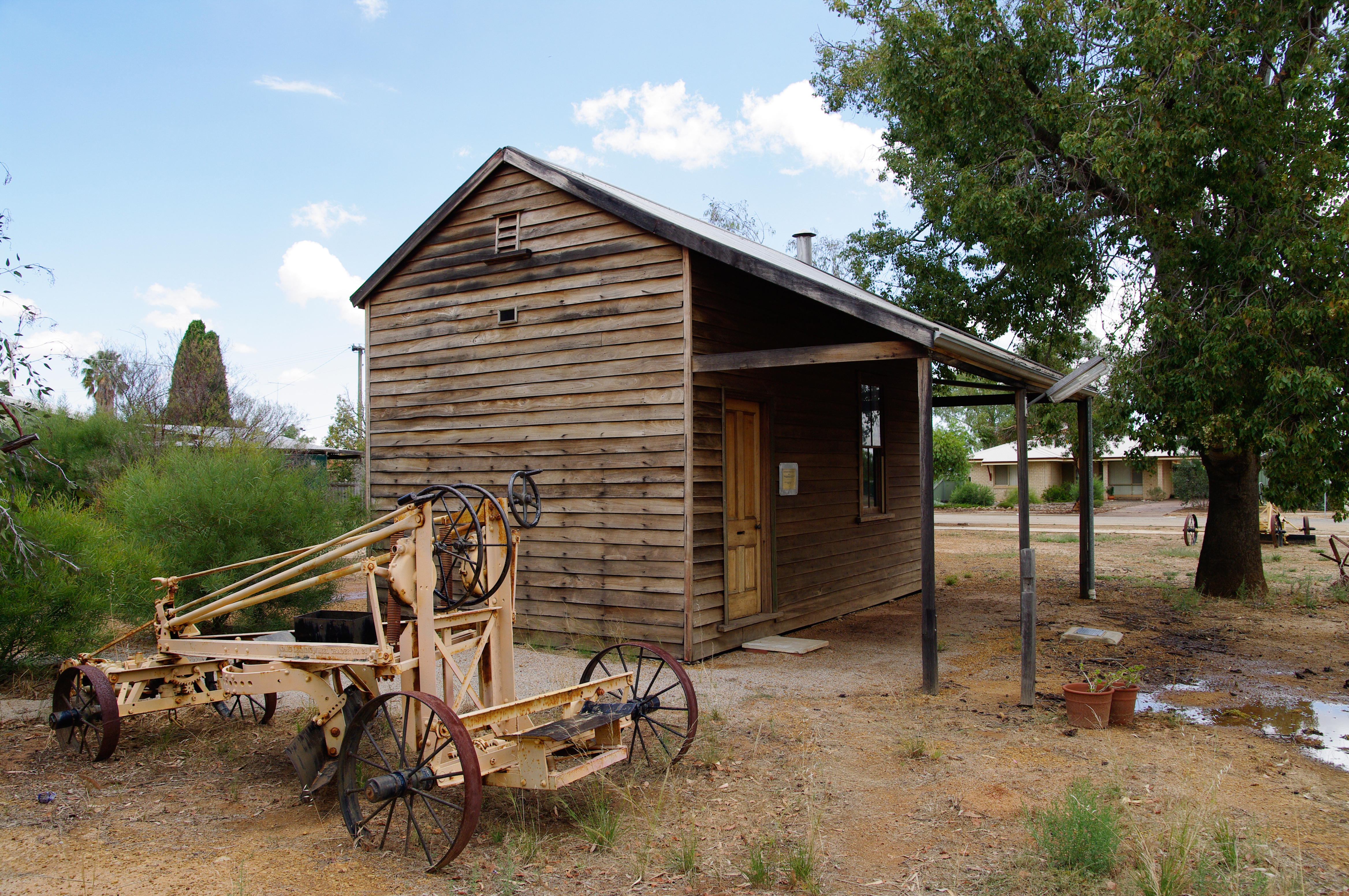 Nungarin, Western Australia. Roadboard offices 1922-1936 foreground is an Adams Leaning Wheel grader no.21 manufactured by JD Adams & Co, Indianapolis USA